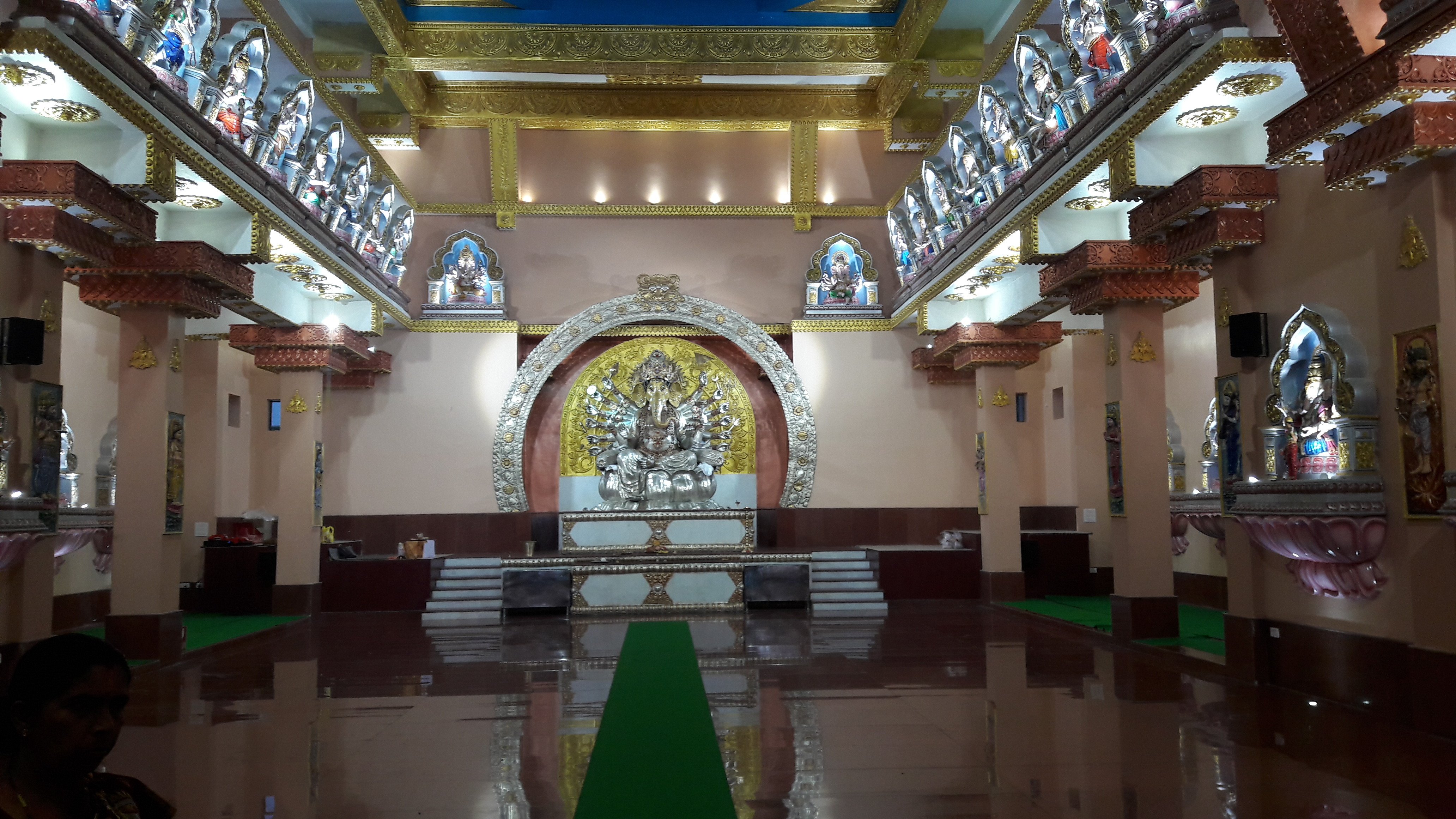 maint entrance of mandir.